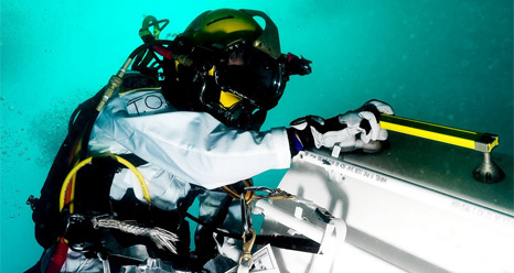 JAXA astronaut and NEEMO 15 crew member Takuya Onishi maneuvers a large simulated drill press during an underwater EVA from the Aquarius underwater laboratory. NASA photo in public domain.